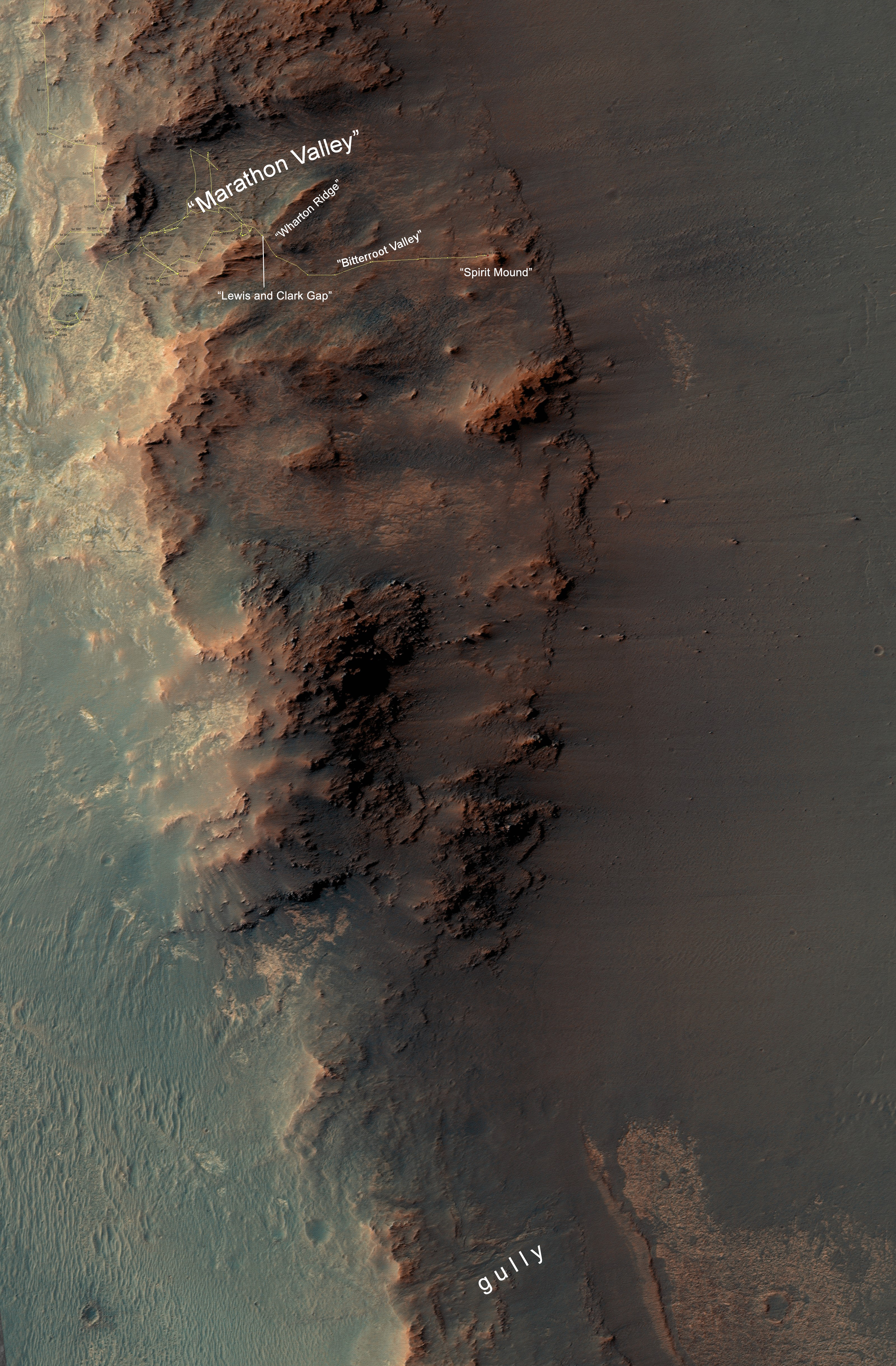 This map show a portion of Endeavour Crater's western rim that includes the "Marathon Valley" area investigated intensively by NASA's Mars Exploration Rover Opportunity in 2015 and 2016, and a fluid-carved gully that is a destination to the south for the mission. The width of the area covered in the map is about half a mile (about 800 meters). North is up. Opportunity entered the northern end of the mapped area in January 2015 and entered Marathon Valley in July 2015. A gold line on the map, which may not be visible without zooming into the image, shows the rover's route. Curiosity departed Marathon Valley in September 2016 by driving southward through "Lewis and Clark Gap" into "Bitterroot Valley." The gully near the south end of the map was incised into Endeavour's rim long ago by a fluid, possibly a water-lubricated debris flow or a flow with mostly water. Driving into this gully to learn more about that flow is one of the goals for a two-year mission extension taking Opportunity through September 2018. A map showing wider context of Opportunity's route from its January 2004 landing in Eagle Crater to Endeavour Crater and Marathon Valley is at The rover's traverse shown here has been mapped by Tim Parker of NASA's Jet Propulsion Laboratory, Pasadena, California, onto an image from the High Resolution Imaging Science Experiment (HiRISE) camera on NASA's Mars Reconnaissance Orbiter. Opportunity completed its three-month prime mission in April 2004 and has continued operations in bonus extended missions. It has found several types of evidence of ancient environments with abundant liquid water. NASA's Jet Propulsion Laboratory, a division of Caltech in Pasadena, California, built and operates Opportunity and manages the Mars Exploration Rover Project and the Mars Reconnaissance Orbiter for the NASA Science Mission Directorate, Washington. The University of Arizona, Tucson, operates HiRISE, which was built by Ball Aerospace & Technologies Corp. of Boulder, Colorado.